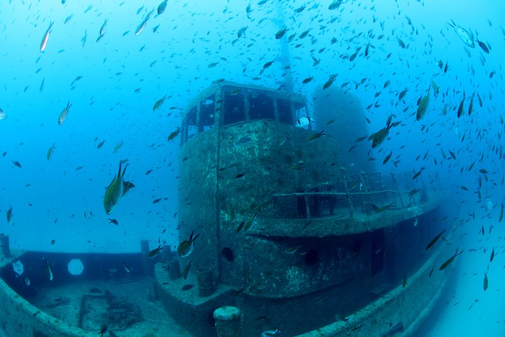 The wreck of the tugboat MV Rozi rests on the seabed at 35 meters. This picture is on the wheelhouse.